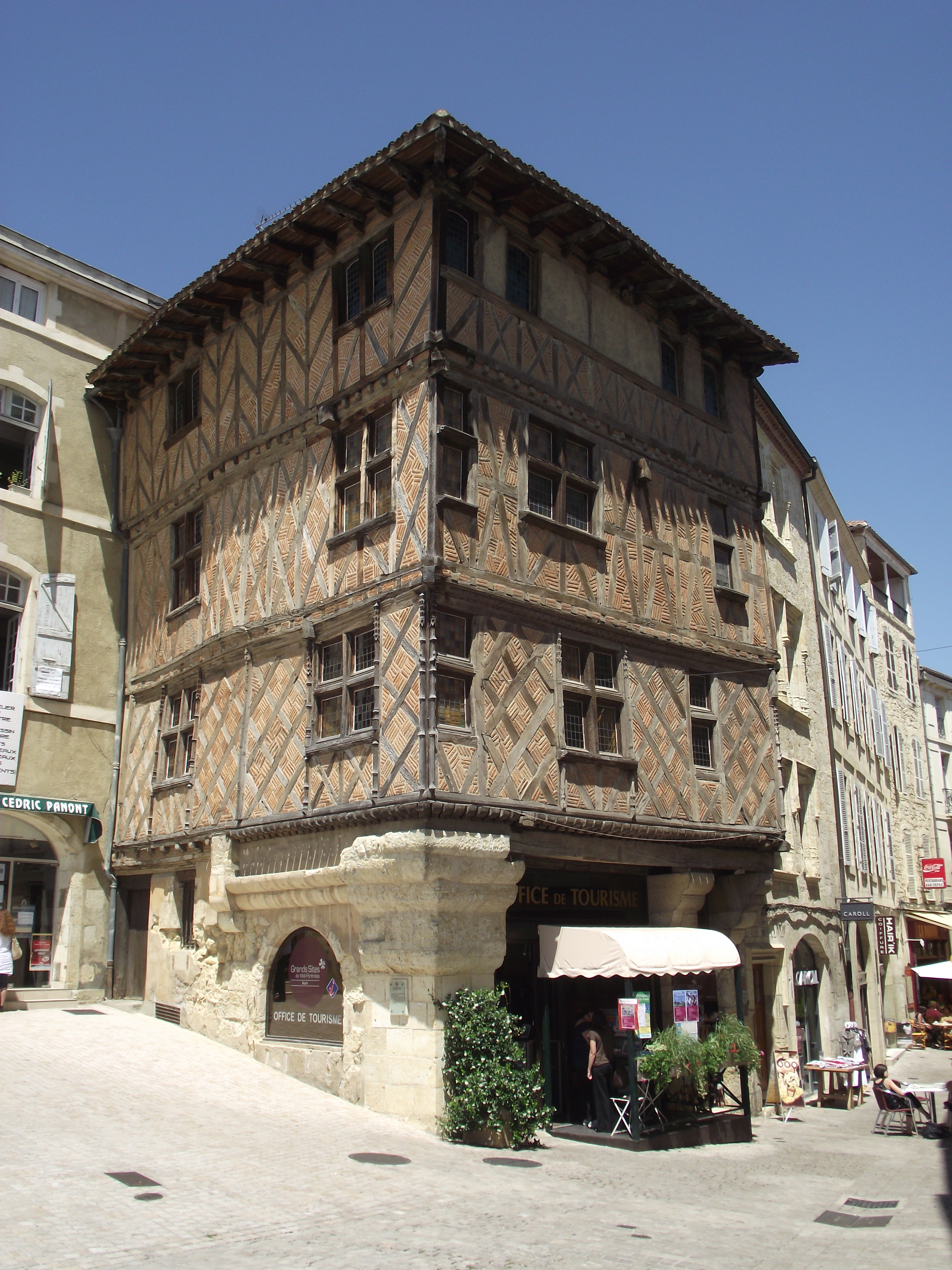 Auch Tourist Information Center, Gers, France